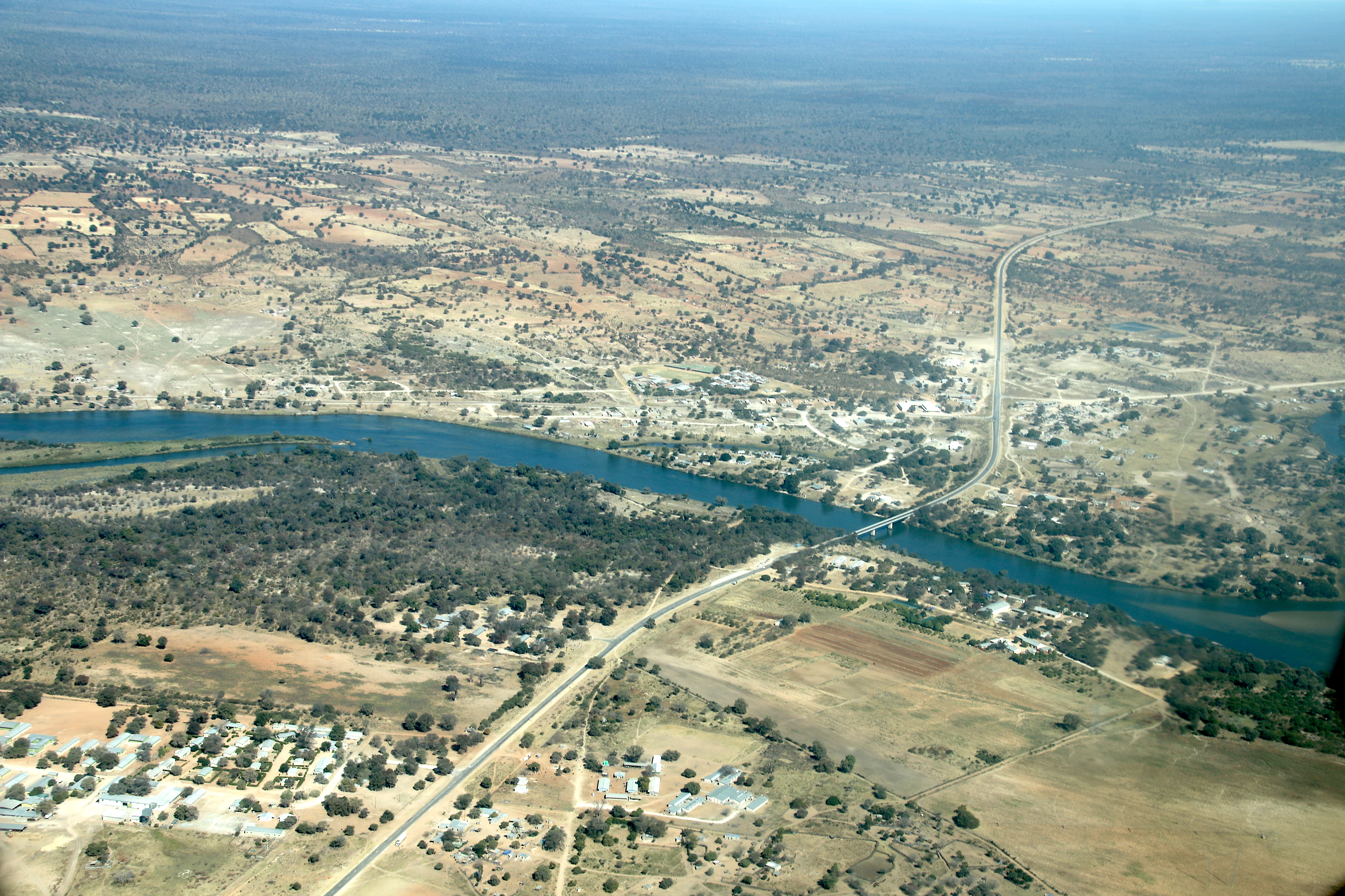 Aerial view of Bagani (2018)